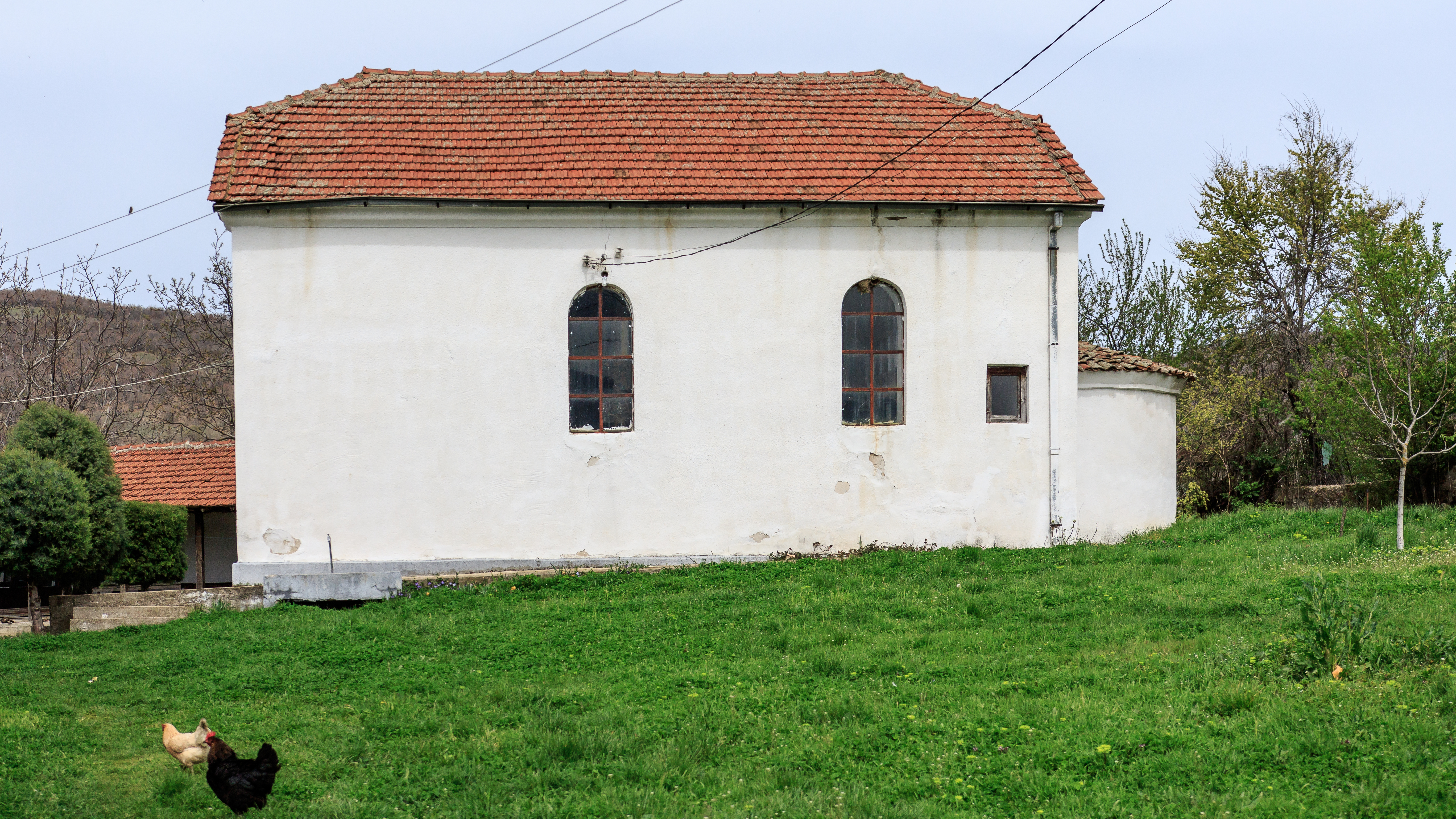 View of the Nativity of the Theotokos Church in the village Rakitec